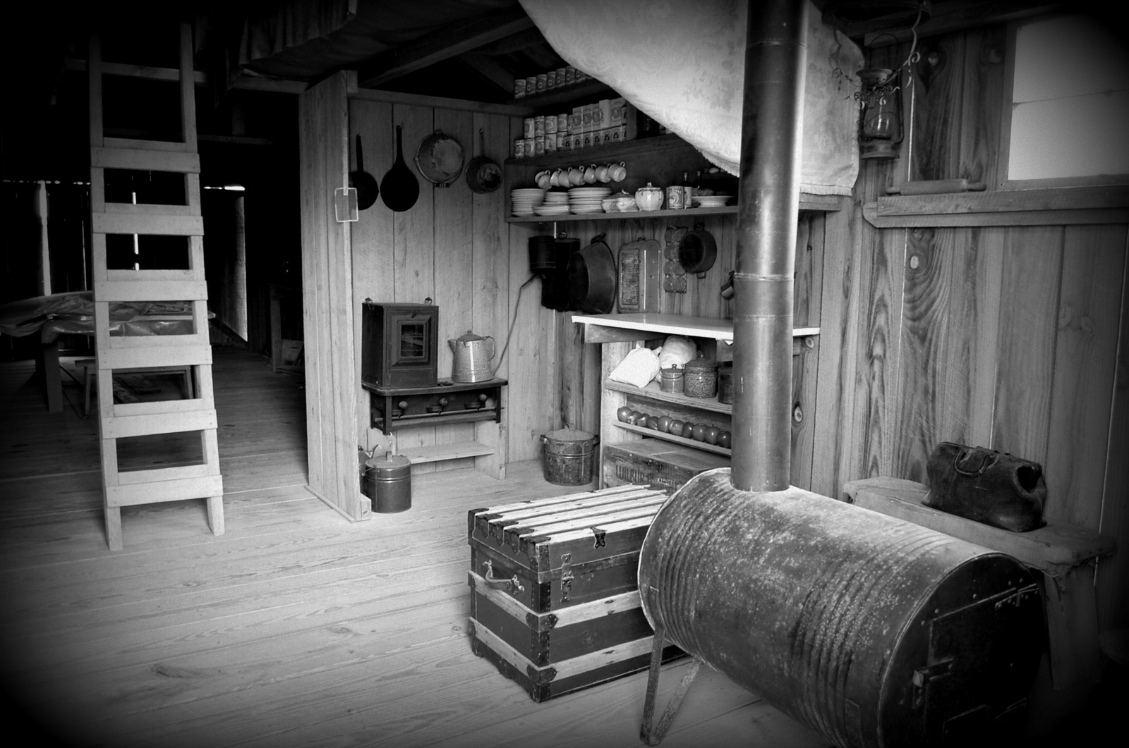 Replica of the Wright Brother's Camp in Kitty Hawk, inside.